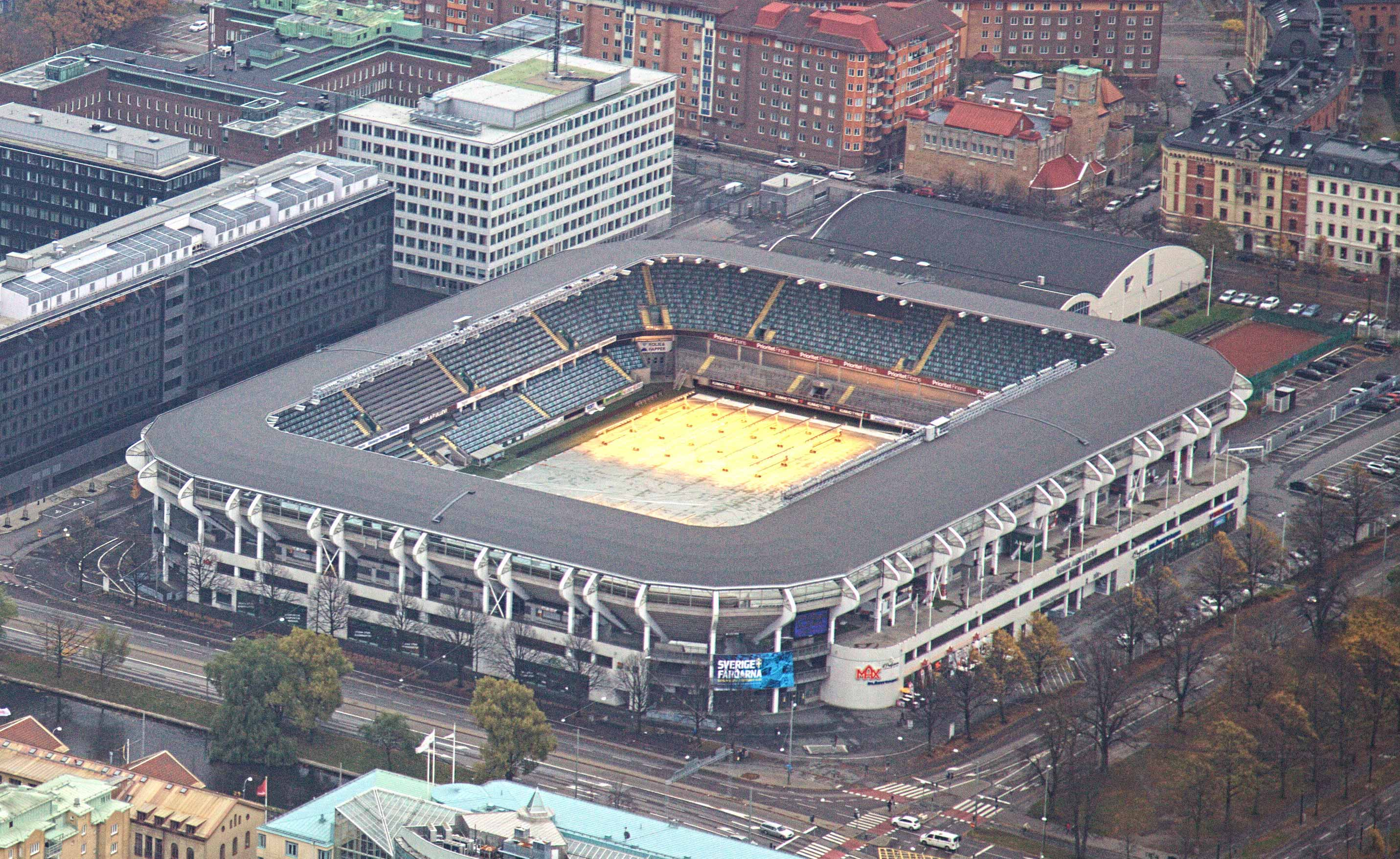 Photo taken on a helicopter over Gothenburg Gamla_Ullevi Football stadium